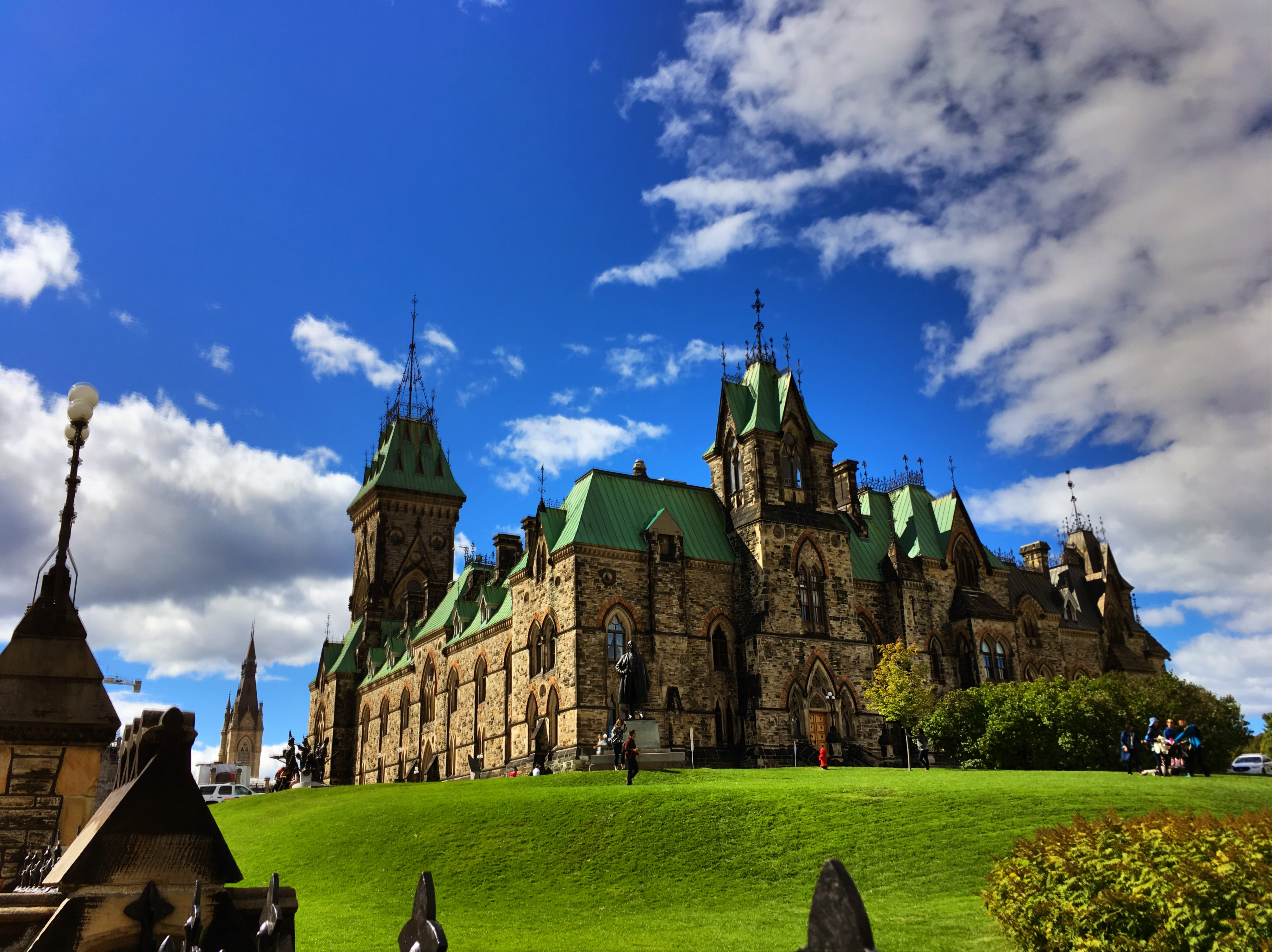 Parliament, Ottawa